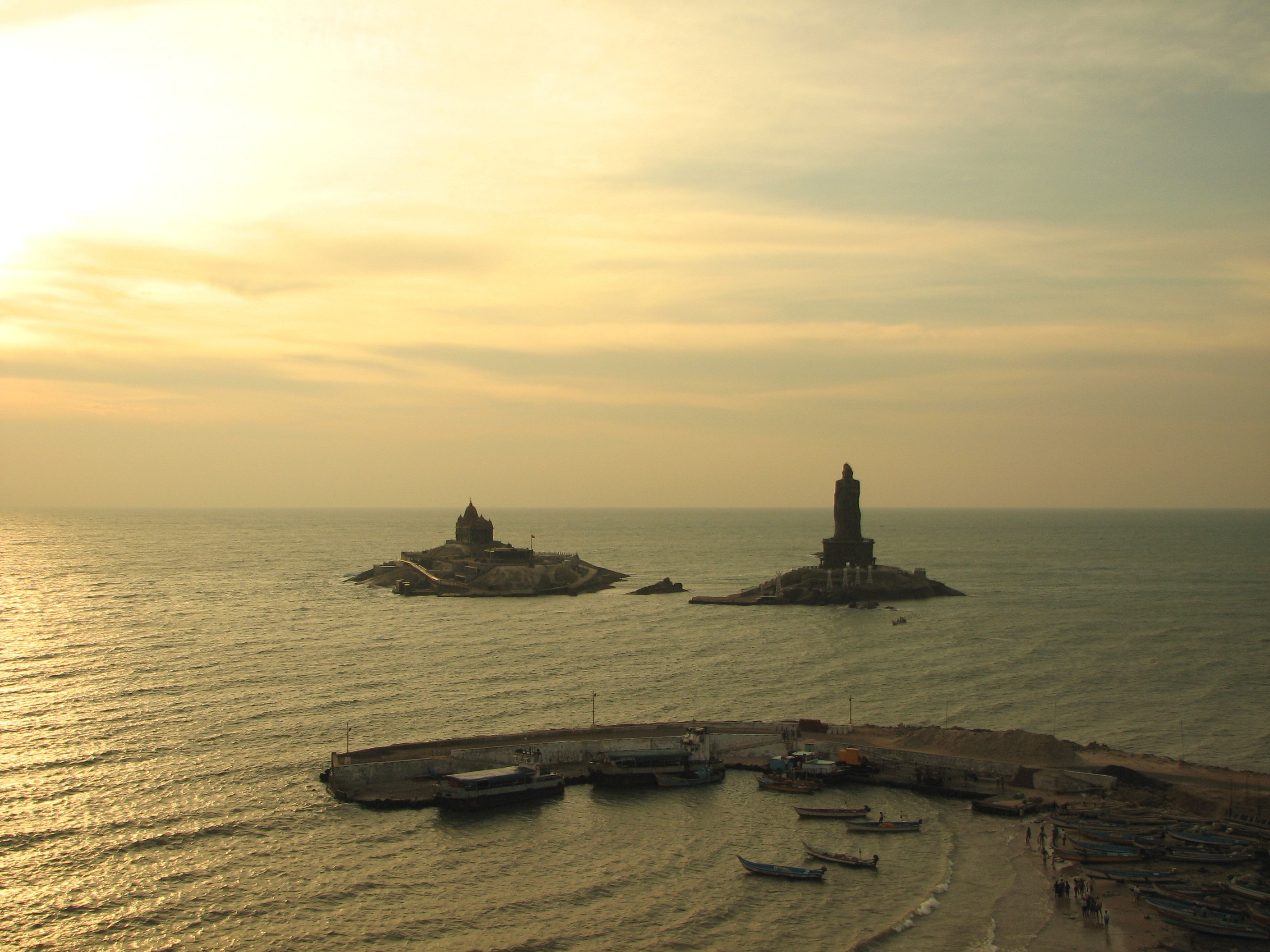 self-made image ; Author's name : Infocaster